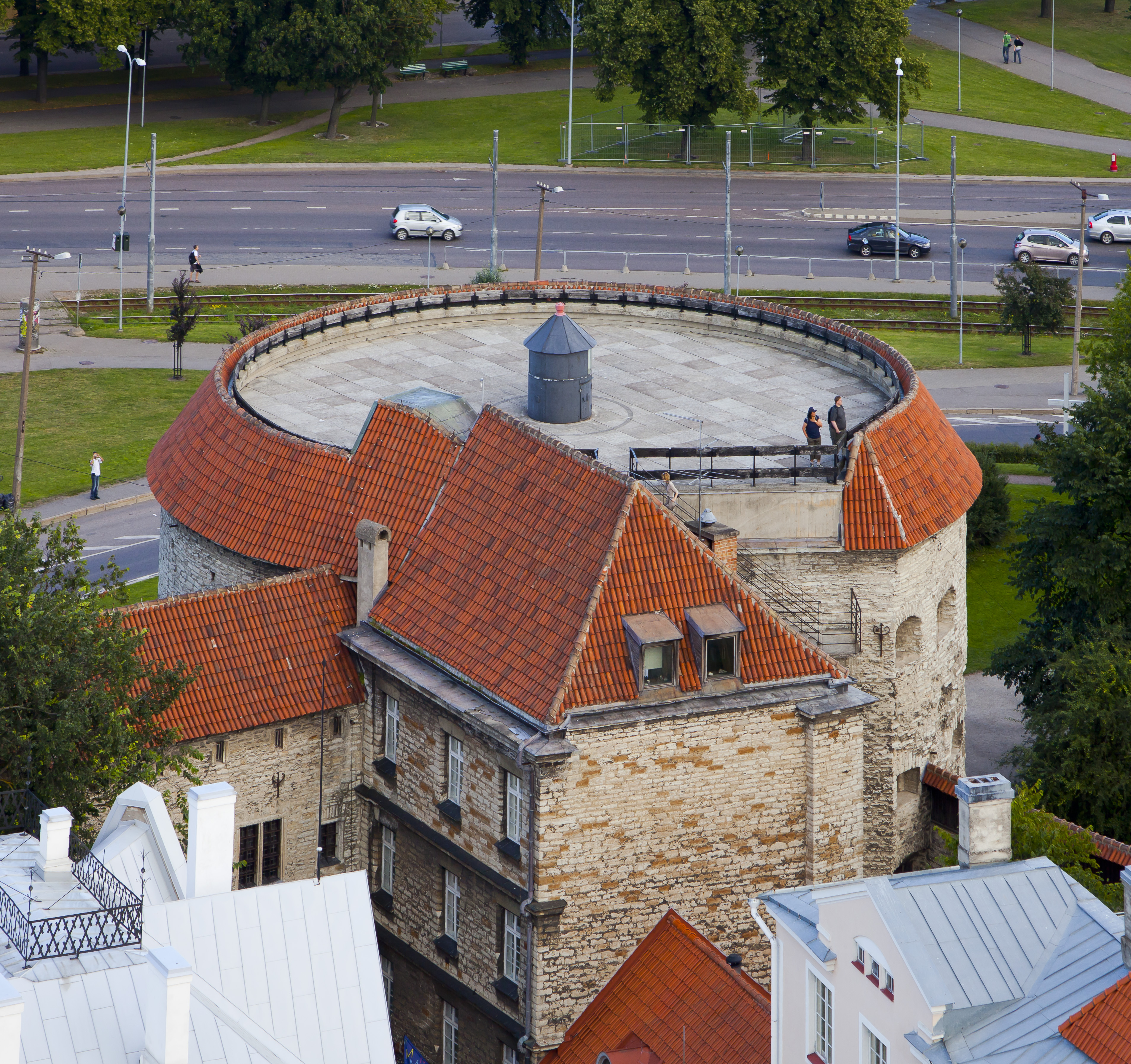 Fat Margaret, Tallinn, Estonia